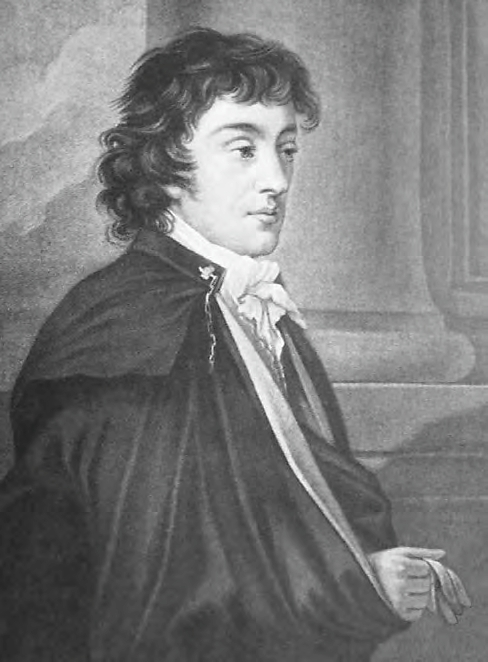 Prince Adam Czartoryski, who as foreign minister under Tsar Alexander played a key role in the formation of the Third Coalition against France.